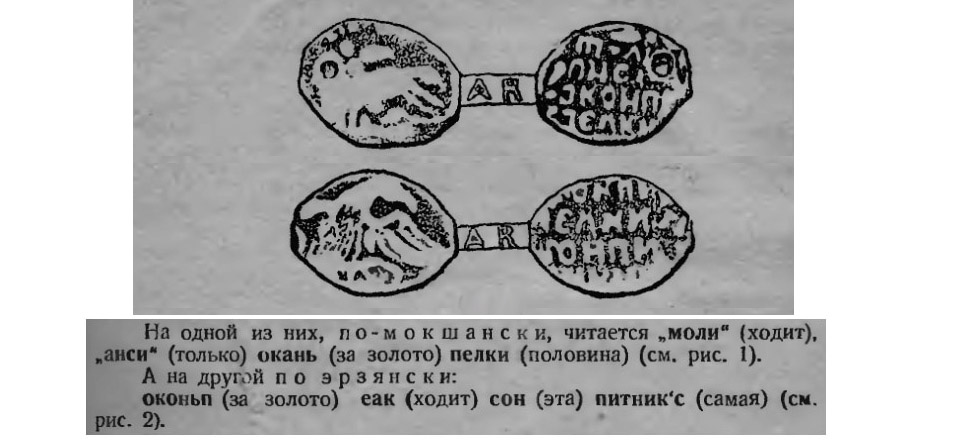 Image of a coin-like object, "mordovka", made by B. V. Zaikovski (1878-1935) for his publication of the coins in 1928.